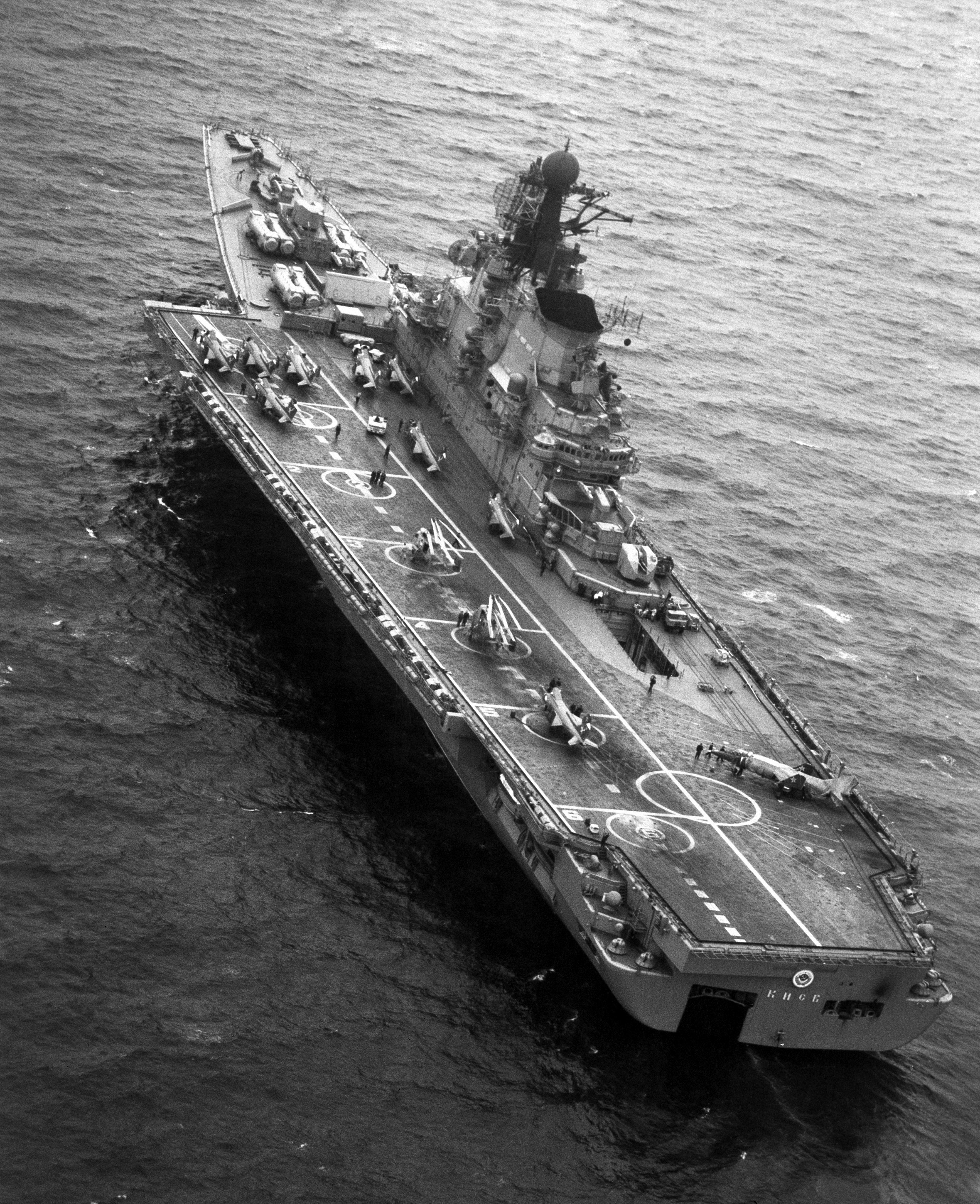 An aerial port quarter view of the Soviet guided missile vertical short take-off/landing aircraft carrier KIEV underway.